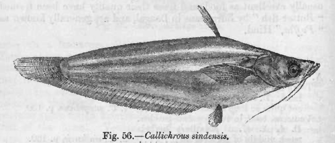 Callichrous sindensis = Ompok sindensis (Day, 1877)